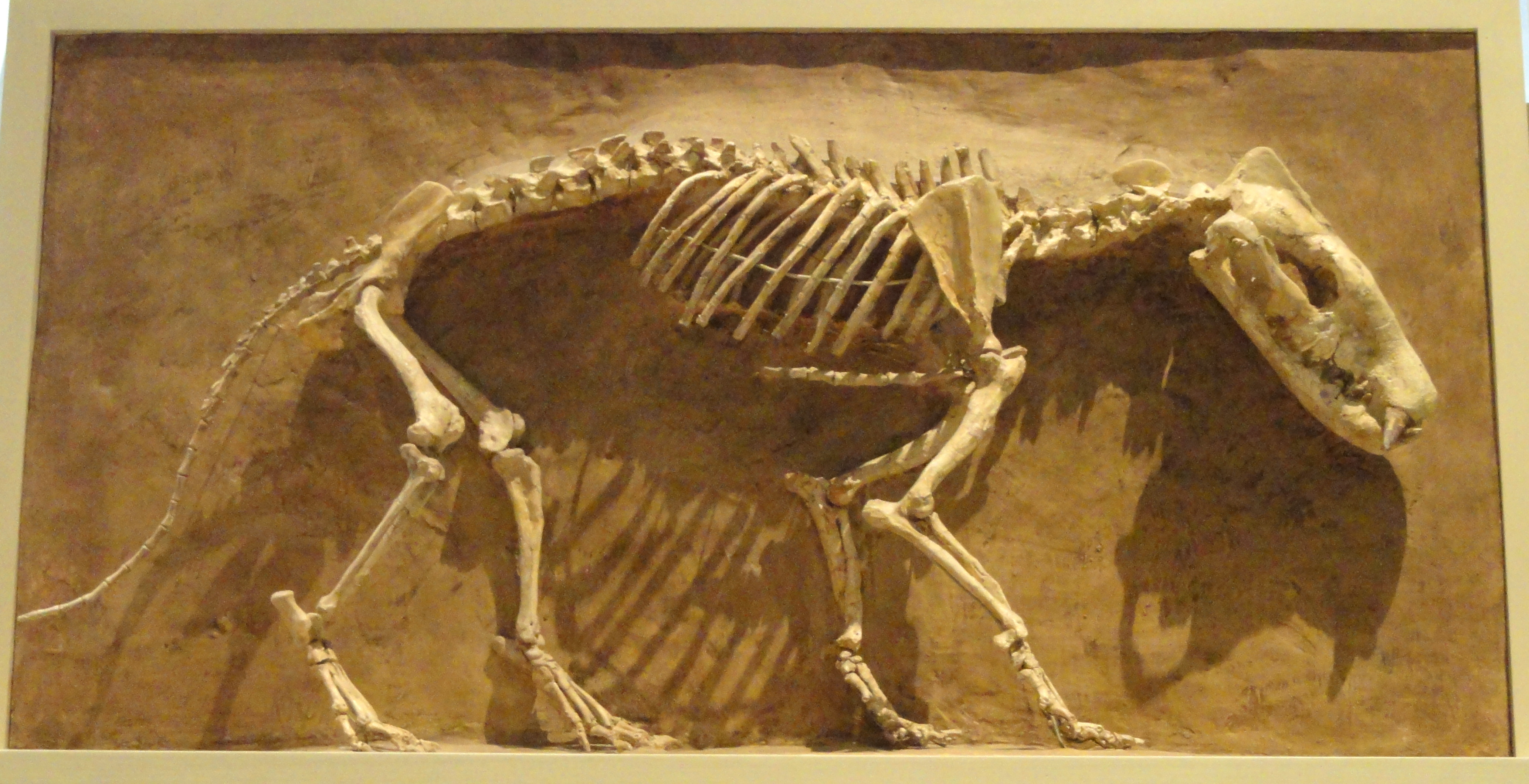 Exhibit in the Royal Ontario Museum, Toronto, Ontario, Canada. This exhibit is old enough so that it is in the public domain, and photography was permitted in the museum. I took this photograph and release it into the public domain.